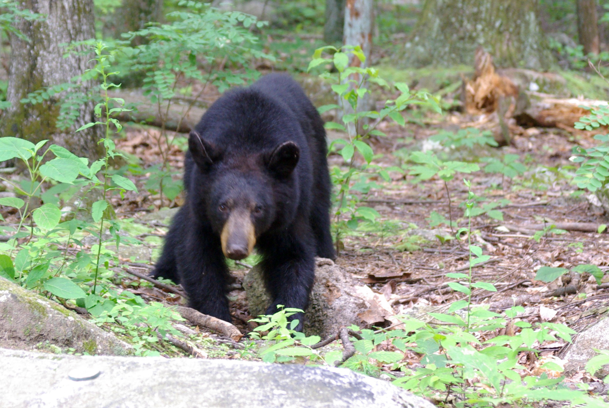 An American black bear (estimated weight of approximately 100-150 pounds) at Old Rag Mountain in Shenandoah National Park, Virginia. Its mother was not observed nearby.